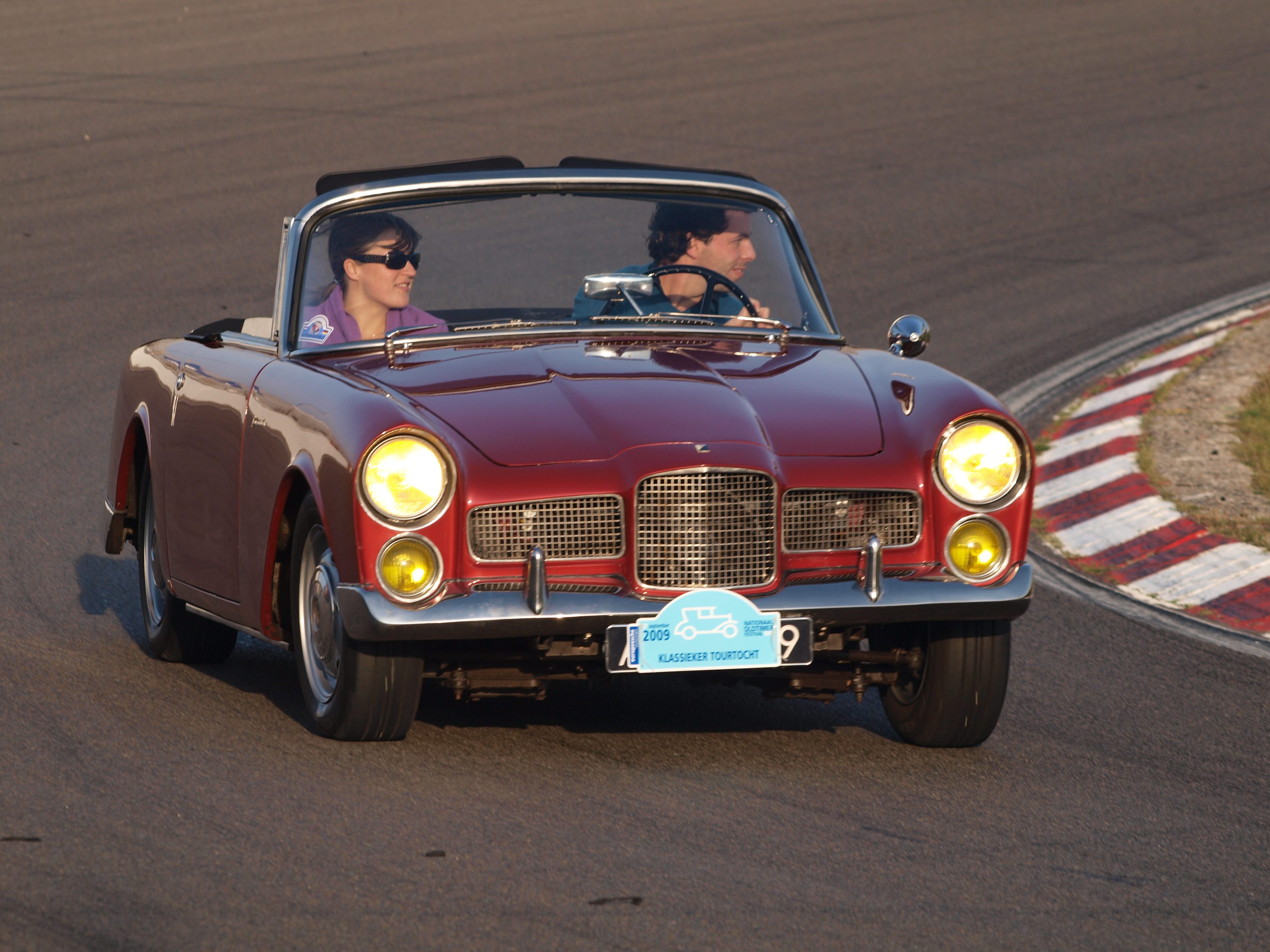 Facel-Vega Facel III (1963-1964) photographed at the Nationaal Oldtimer Festival Zandvoort 2009, The Netherlands. OLYMPUS DIGITAL CAMERA